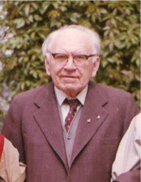 Stefan Anderson, as released by image owner FamSACPlace: Högberga, Tjärngatan 15, Ludvika, Sweden